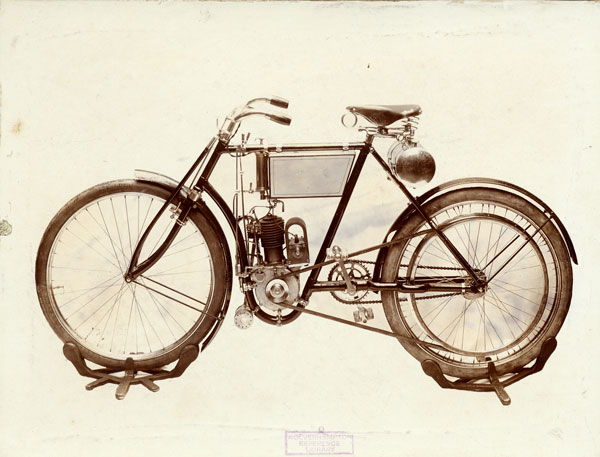 Early Star motorcycle manufactured in Wolverhampton